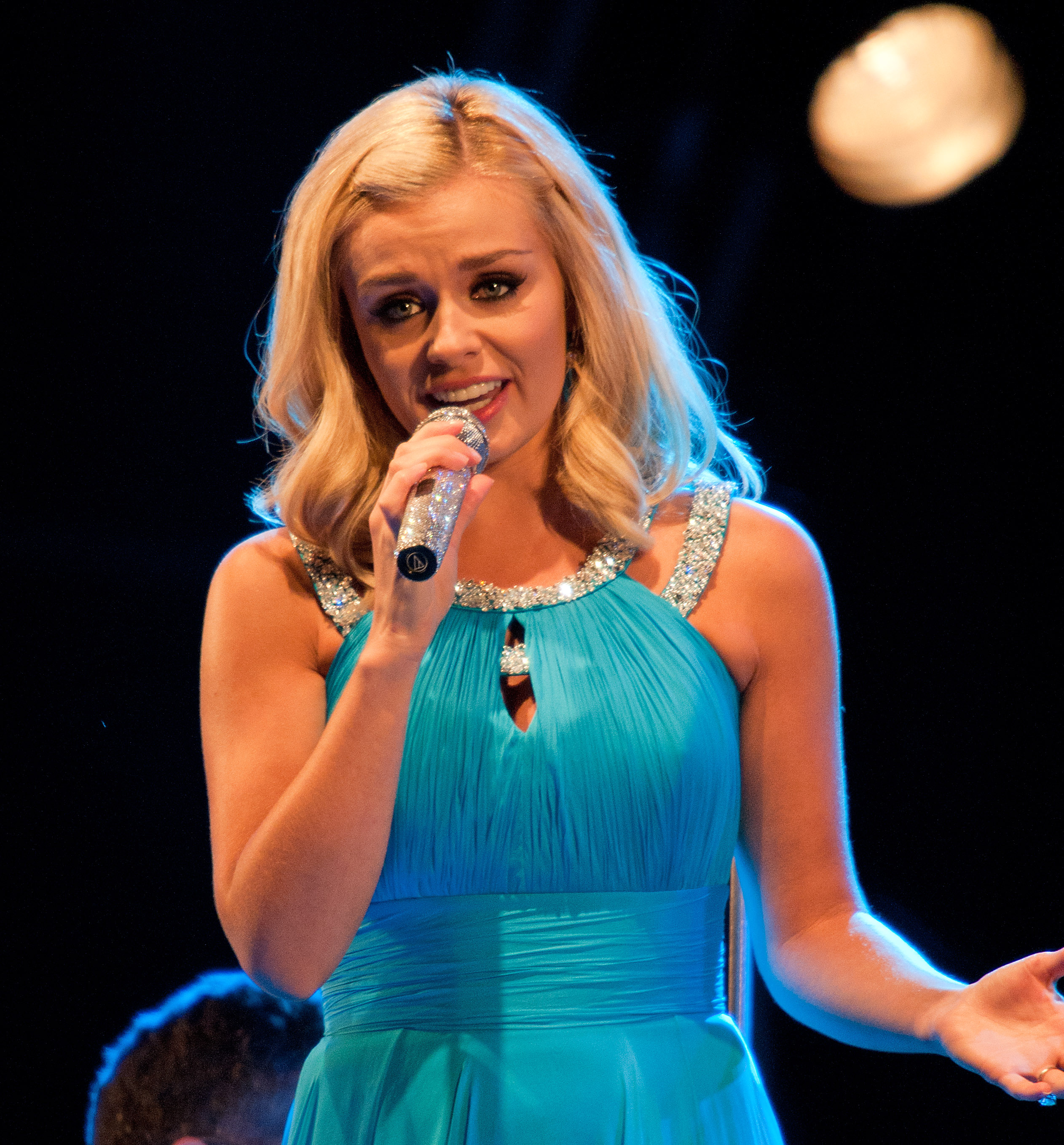 Katherine Jenkins live at Clumber Park in August 2011.